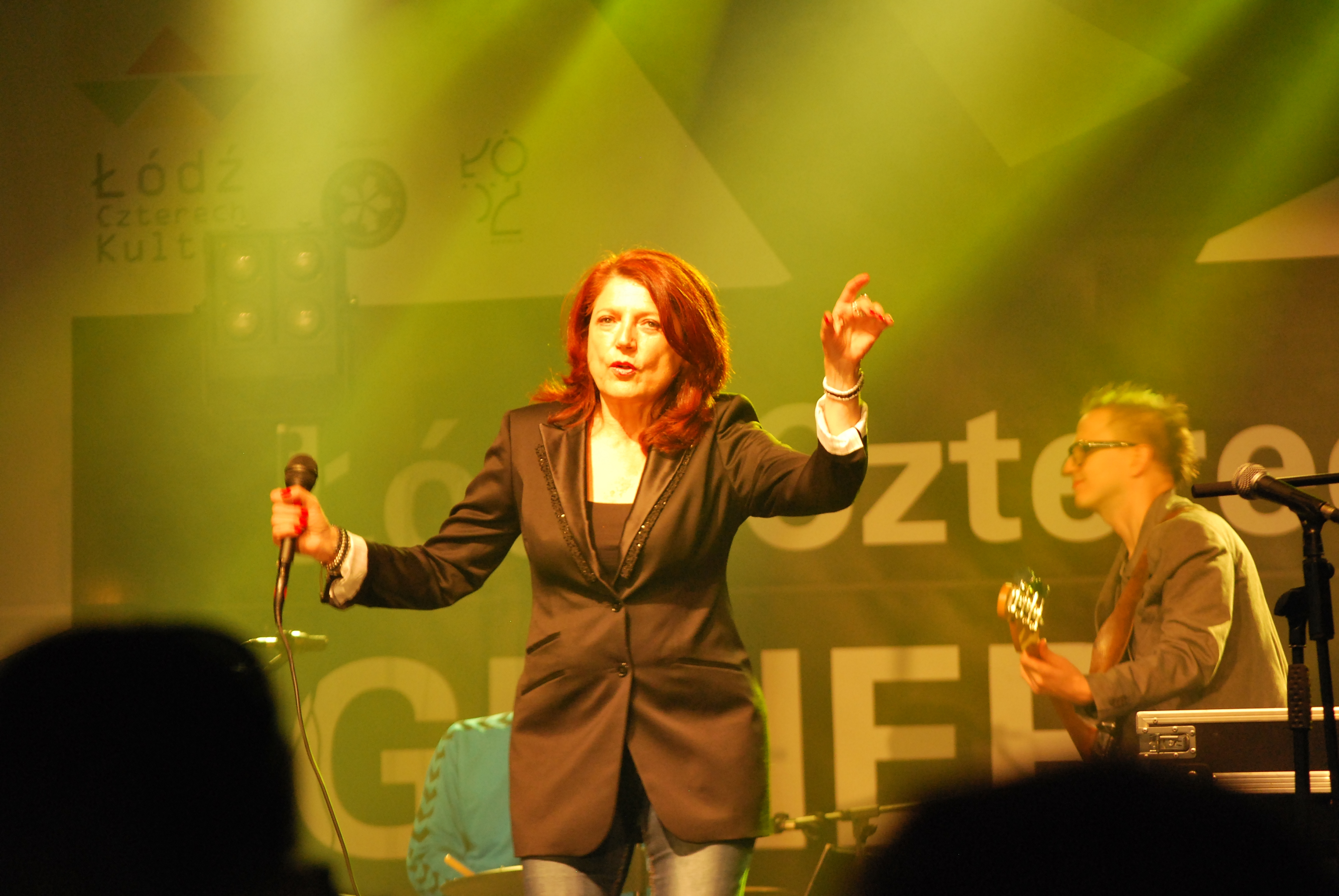 Urszula Dudziak, Łódź of Four Cultures Festival 2012